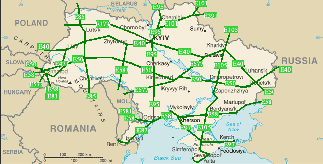 Maps over the E-roads in Ukraine. Straight lines connect control cities, no attempt to follow the real road.